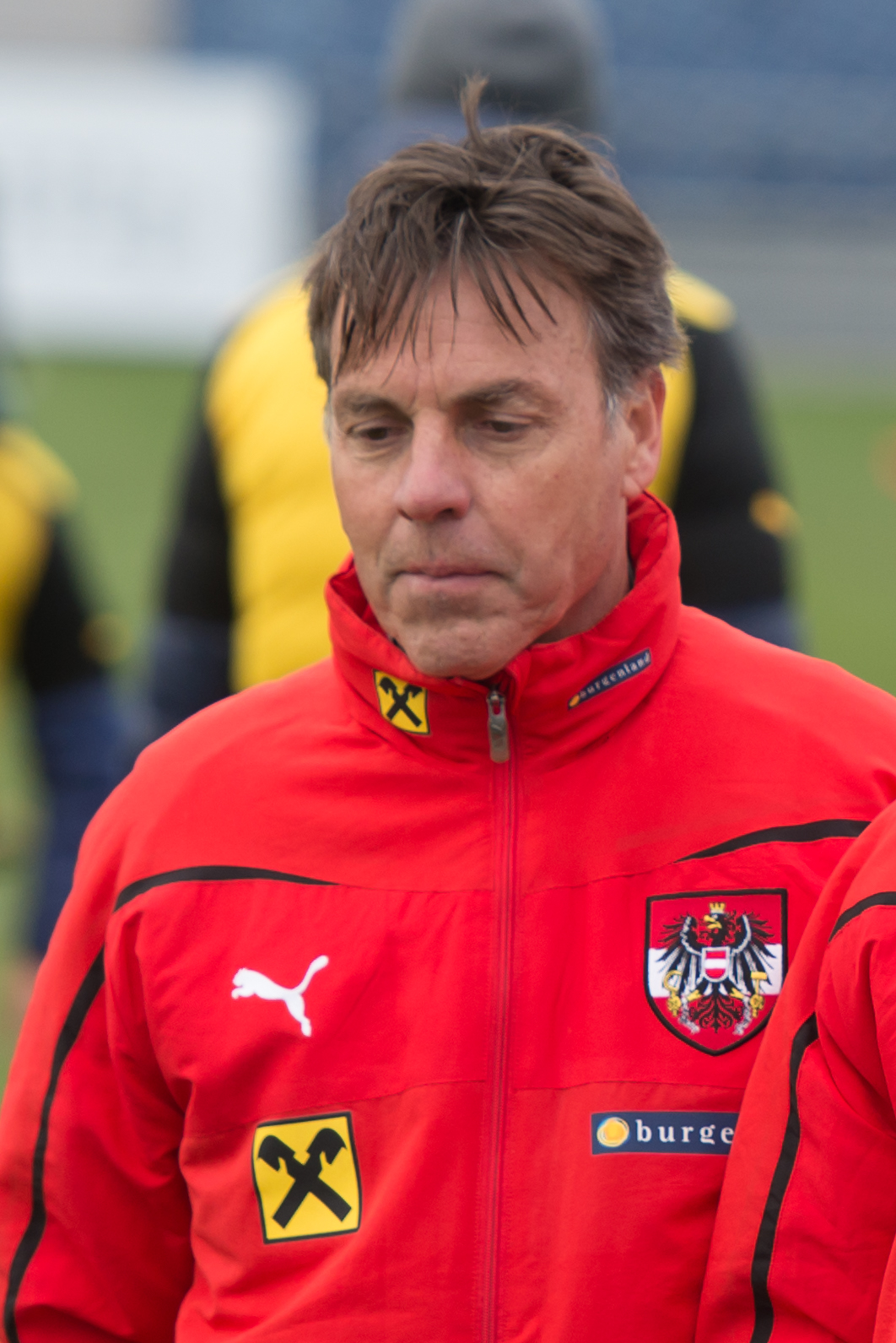 European Under-19 Championships 2015 Elite Round, Austria vs. Croatia, 28/03/2015 Wiener Neustadt, Lower Austria